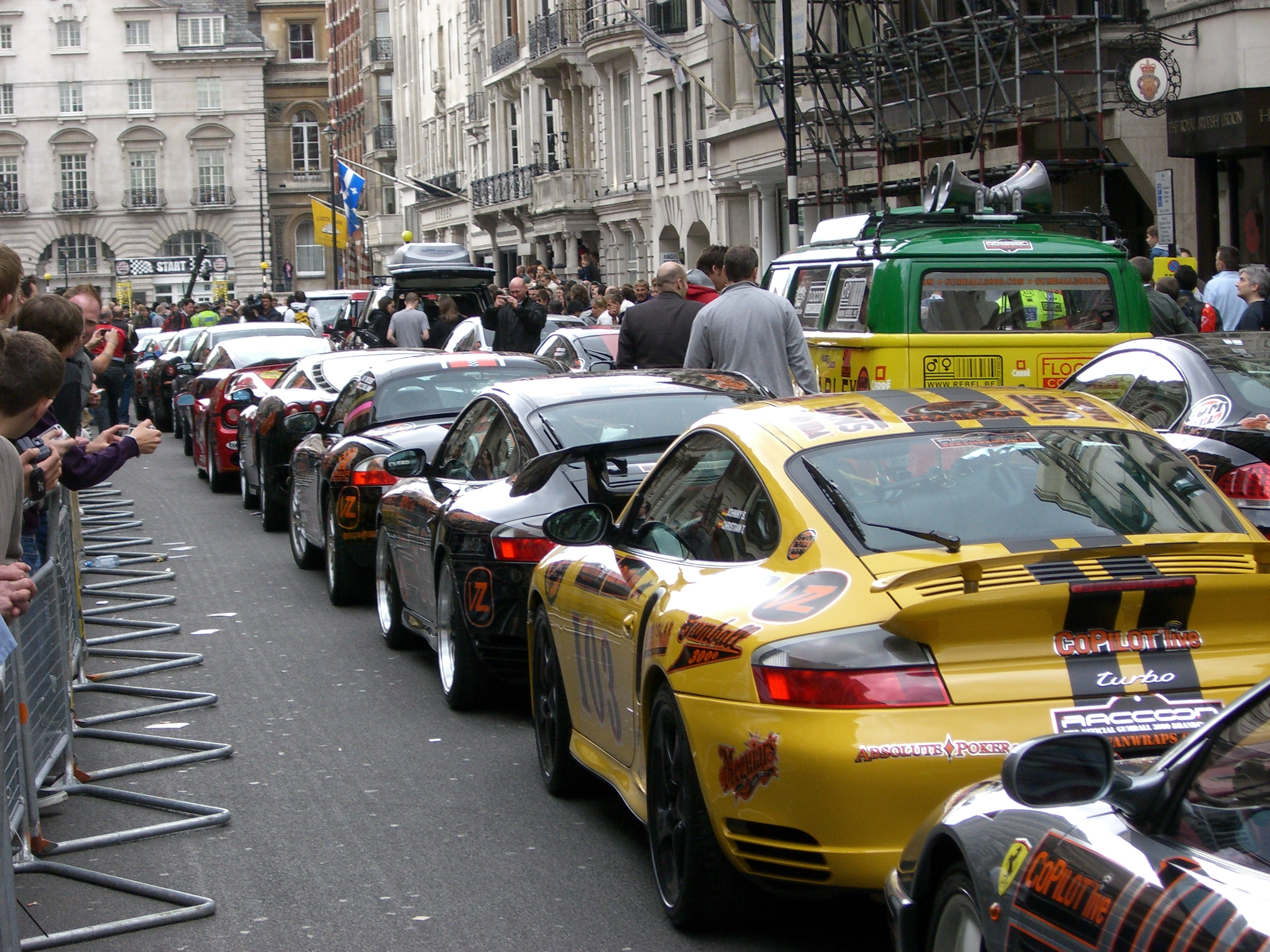 Cars lined up before the start of Gumball 3000 in Pall Mall, London